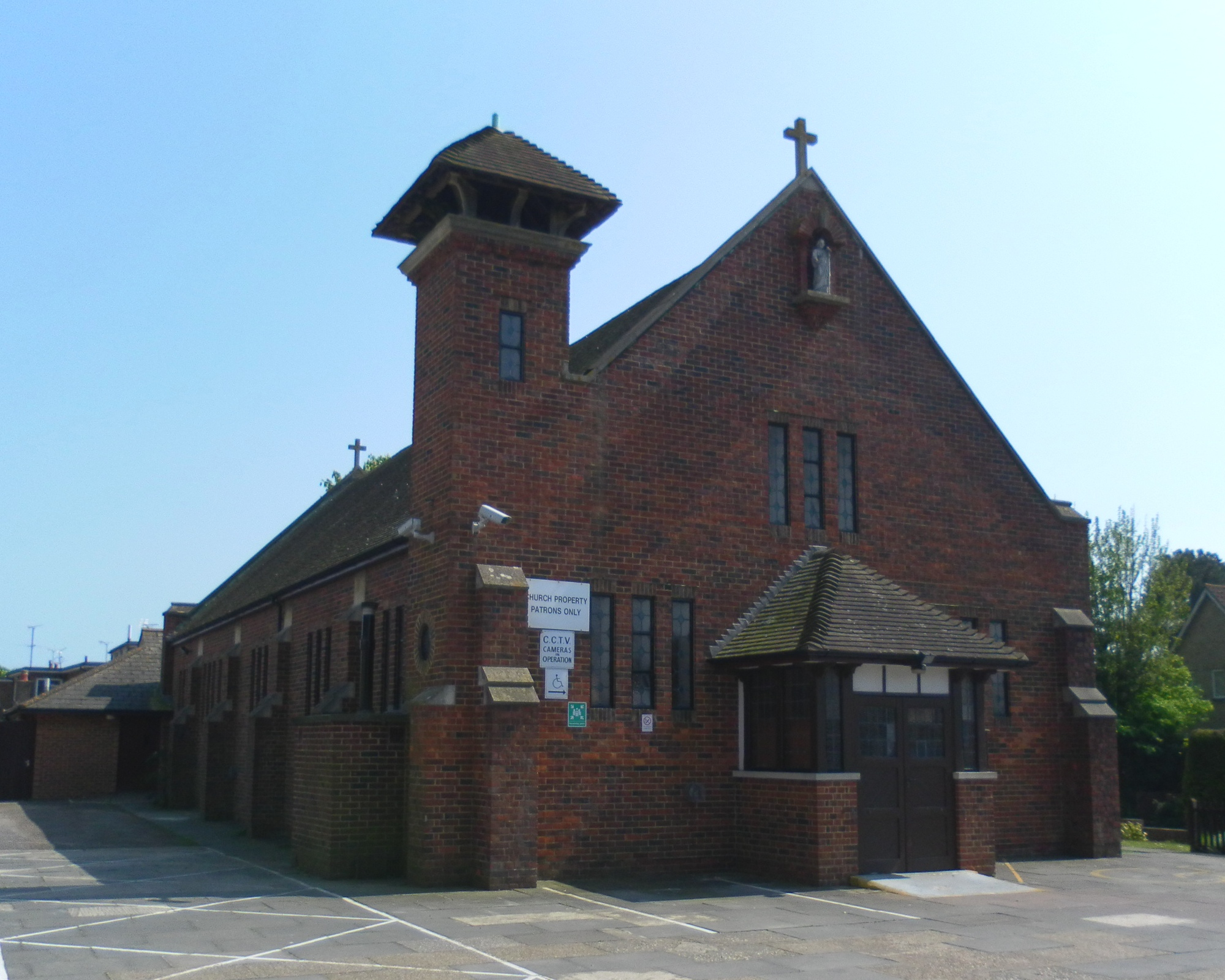 St Joseph's Church, Rustington, Arun District, West Sussex, England. A Roman Catholic church serving Rustington; built in 1951.